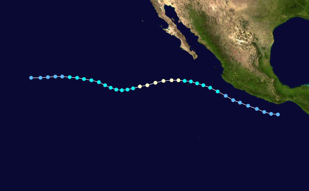 Hurricane Lowell (1990) track. Uses the color scheme from the Saffir-Simpson Hurricane Scale.